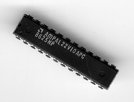 AMD PAL 22V10. The 22V10 PAL was introduced by Advanced Micro Devices (AMD) in 1983. This was the first PAL with configurable output macrocells. This IC could replace many standard TTL logic ICs.